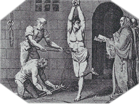 An etching showing "Inquisitorial torture". Caption reads: "Two old priests showing the application of torture under the supervision of the Inquisition" Note that the image was apparently also mirrored.